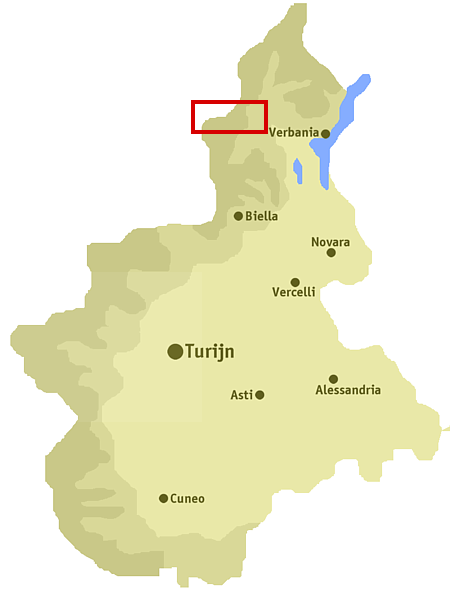 Position of the valley Valle Anzasca